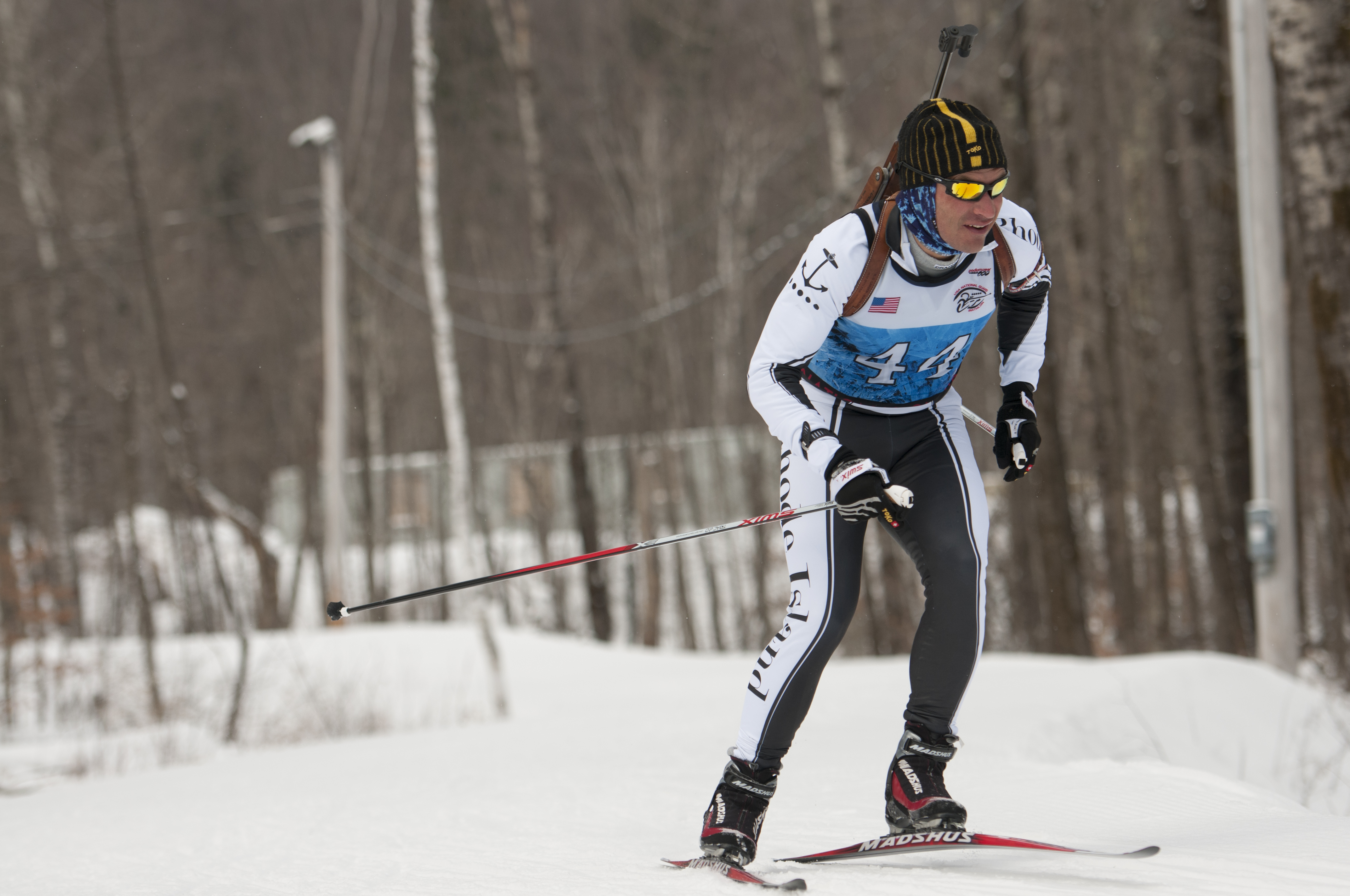 U.S. Army Lt. Col. Duncan Douglas, a member of the Rhode Island National Guard, competes in the senior men's sprint biathlon race at the Ethan Allen Firing Range, Jericho, Vt., March 2, 2014. More than 140 athletes from 21 different states are participating in the 2014 Chief of the National Guard Bureau Championships. (U.S. Air National Guard photo by Staff Sgt. Sarah Mattison)